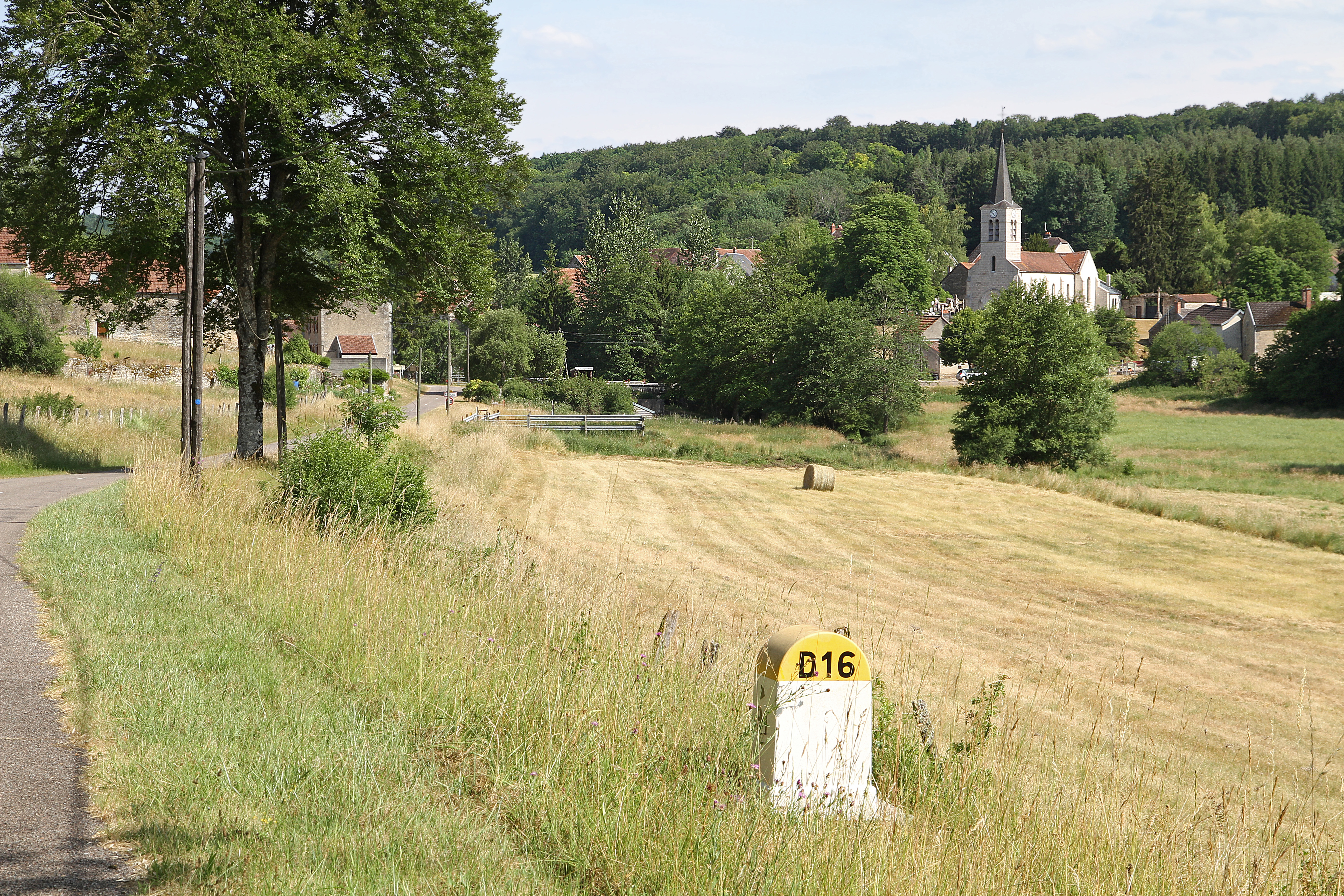 The village Beaulieu in Brévon valley